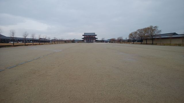 At history park "Suzakumon-Hiroba". A view from highway-side.